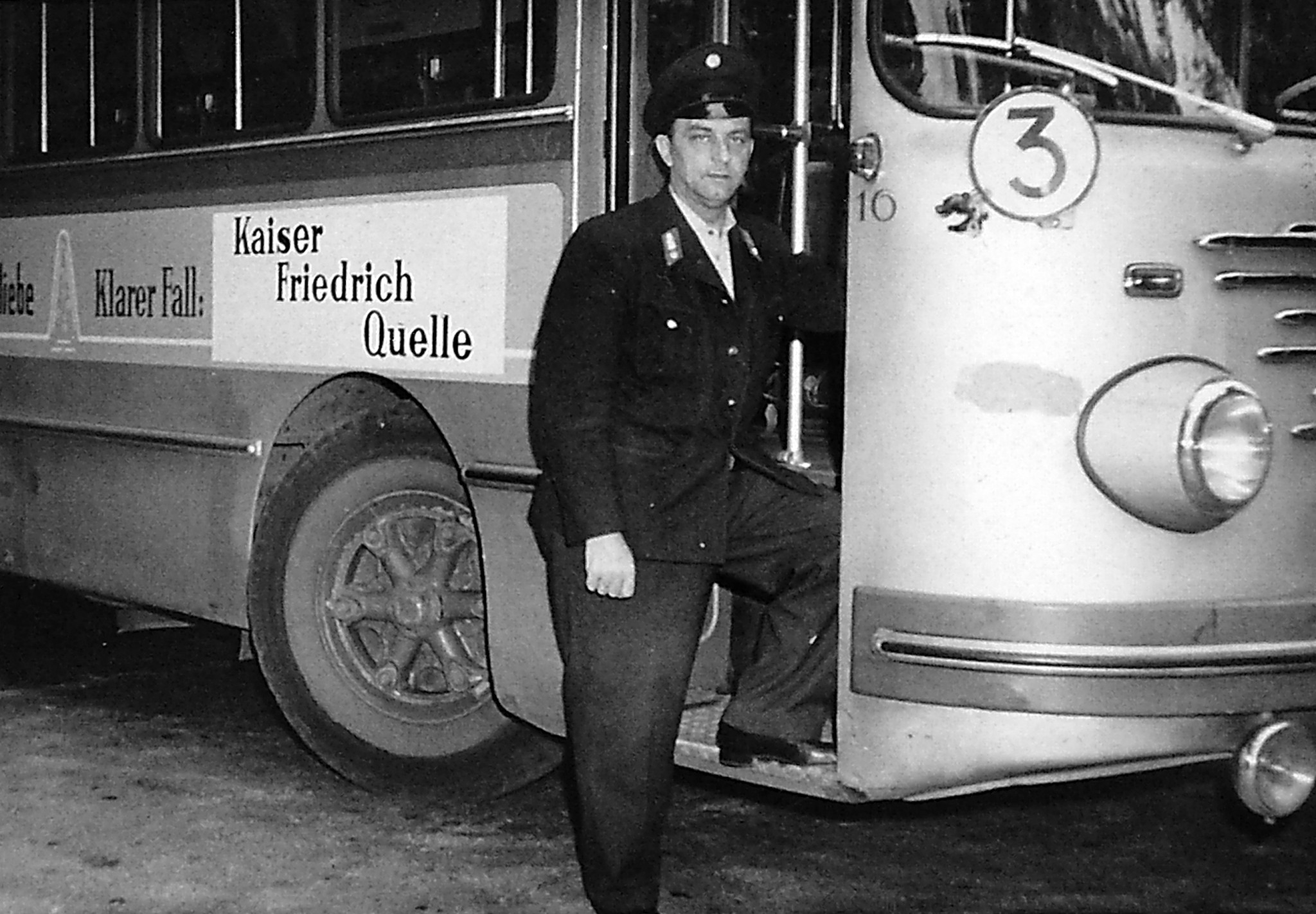 Driver of the Offenbach OBuslinie 3 with vehicle